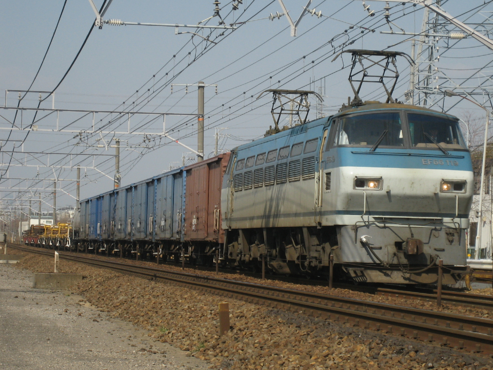 JR Freight Class EF66-100 electric locomotive EF66 119 hauling a freight train on the Tokaido Main Line between Kyowa and Ōdaka stations in Midori-ku, Nagoya, Japan